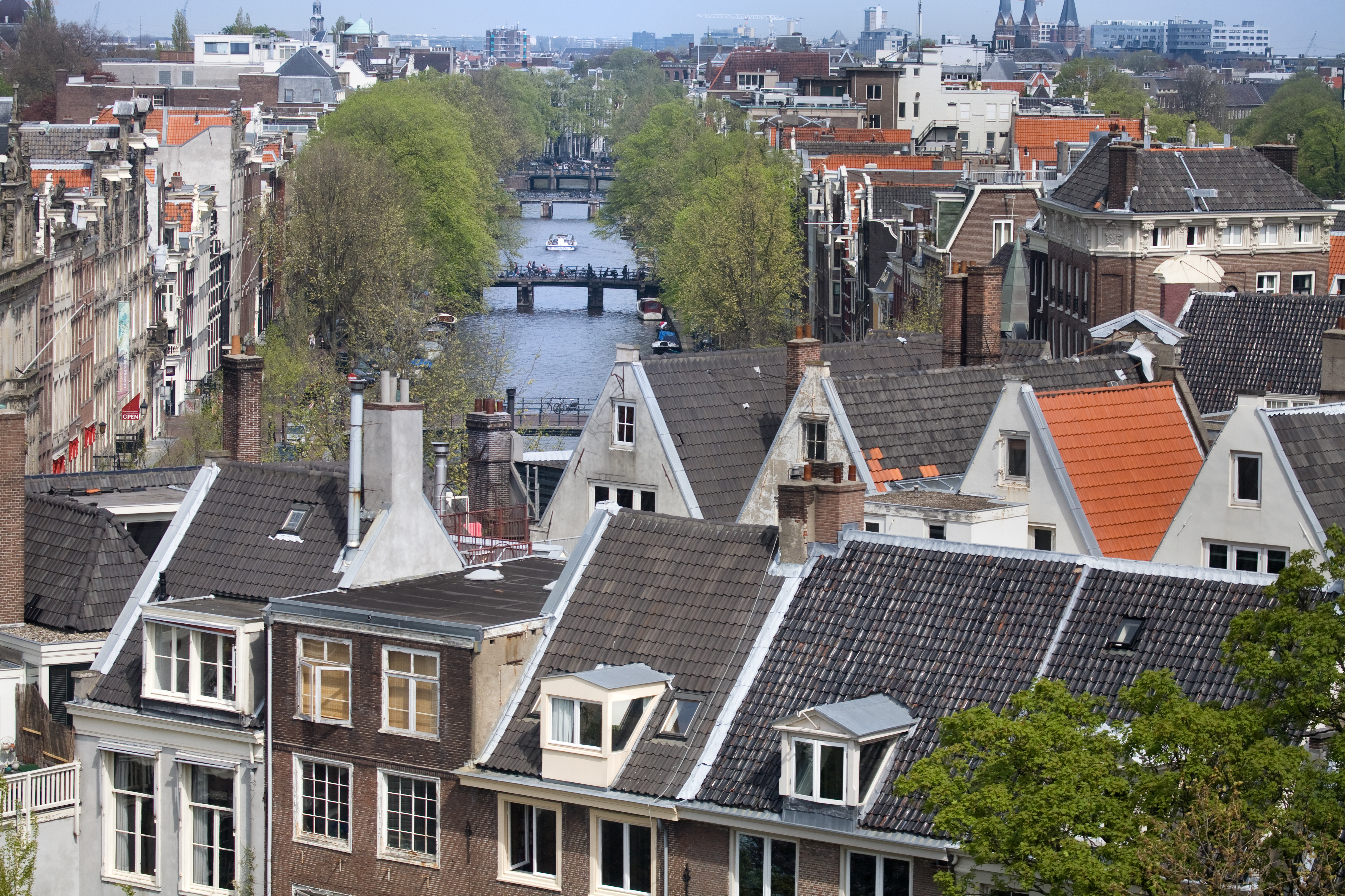 View from the Metz & Co. Metz & Co. Department Store Rooftop Cafe of the Keizersgracht channel, Amsterdam, The Netherlands